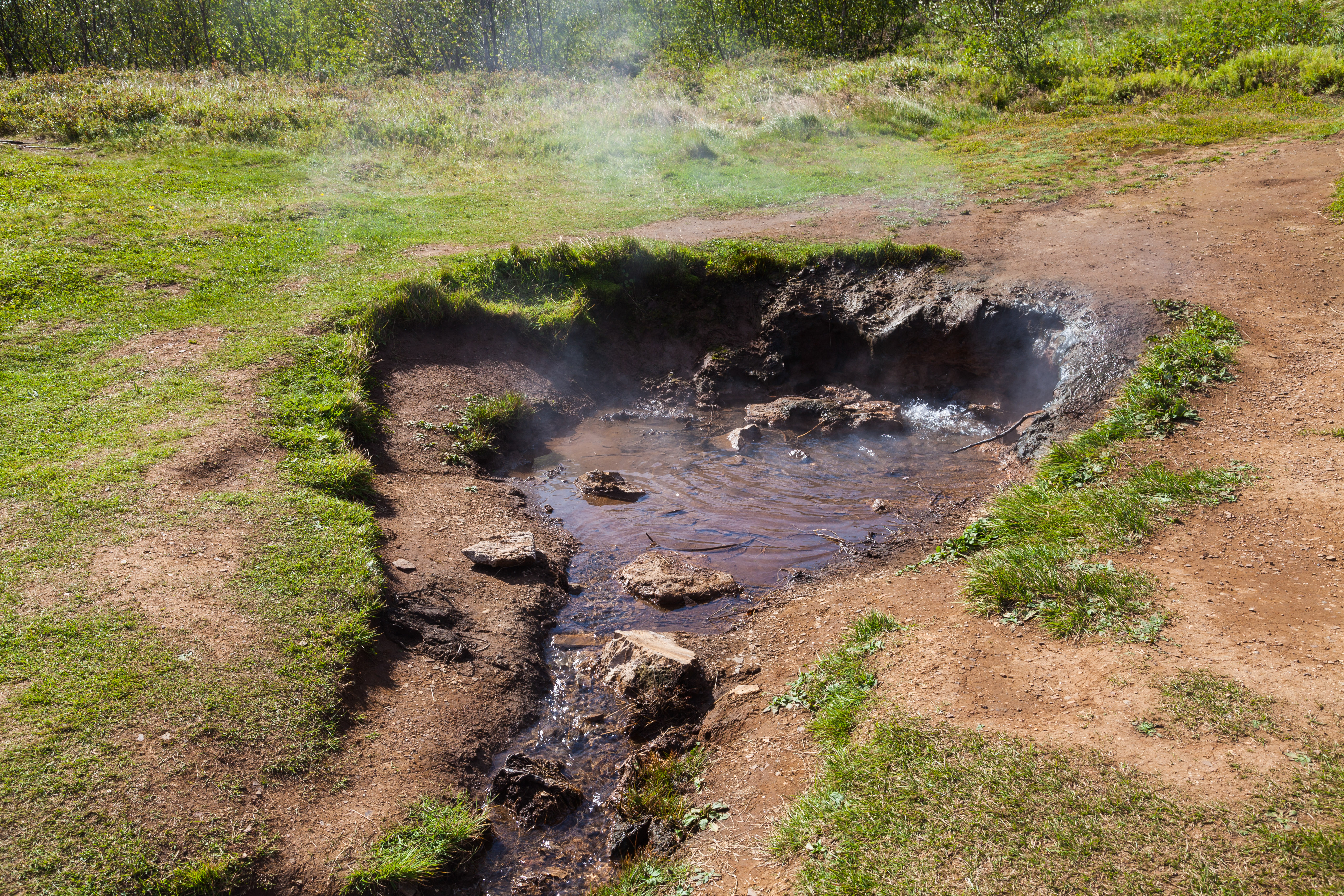 Geysir Geothermal Field, Suðurland, Iceland